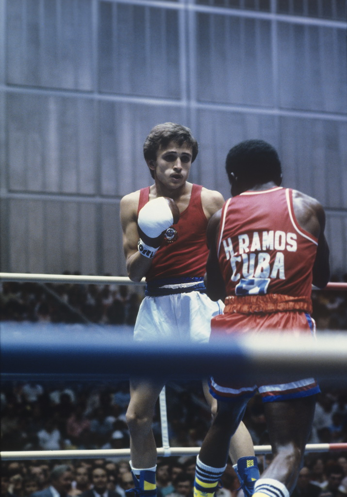 “Boxers Shamil Sabirov and Ipolito Ramoz”. Soviet boxer Shamil Sabirov, left, and Cuban athlete Ipolito Ramoz at a boxing competition (-48kg) at the Olimpiisky sports center. Soviet boxer wins. The 22nd Olympic Games. July 19 - August 3, 1980.